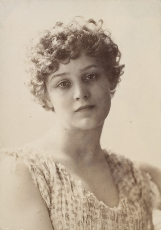 Dorothy Dane